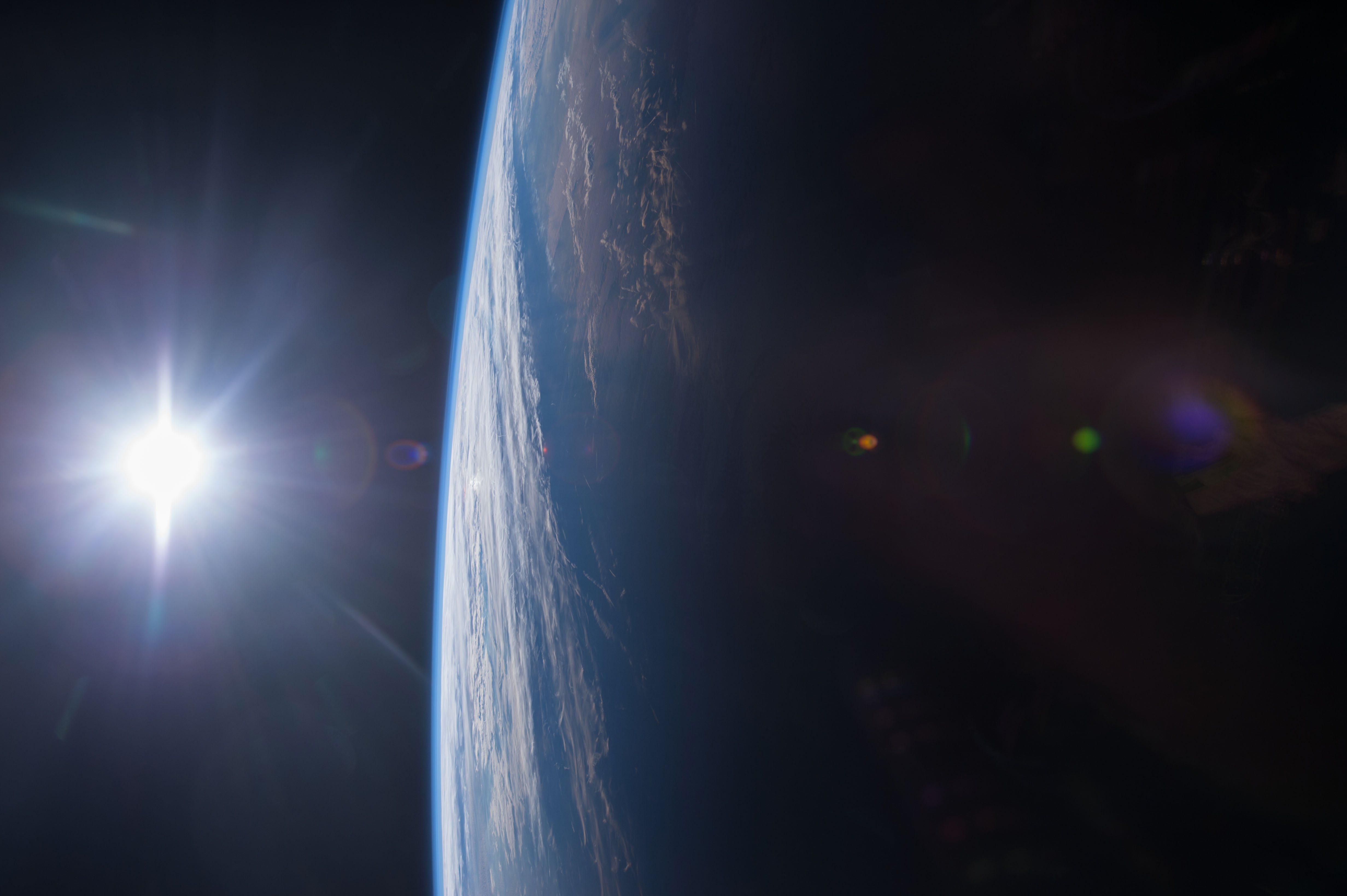 From the International Space Station, Expedition 42 Flight Engineer Terry W. Virts took this photograph of the Gulf of Mexico and U.S. Gulf Coast at sunset. The space station and its crew orbit Earth from an altitude of 220 miles, traveling at a speed of approximately 17,500 miles per hour. Because the station completes each trip around the globe in about 92 minutes, the crew experiences 16 sunrises and sunsets each day.